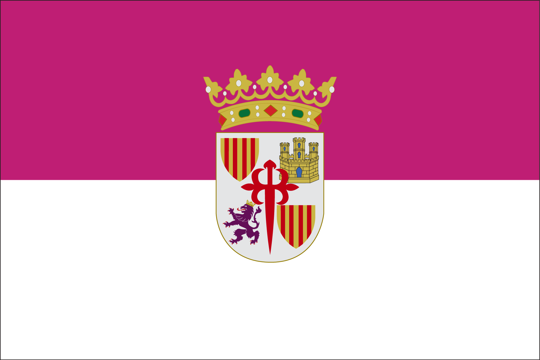 Municipal flag of Villanueva de los Infantes, Ciudad Real, (Spain)